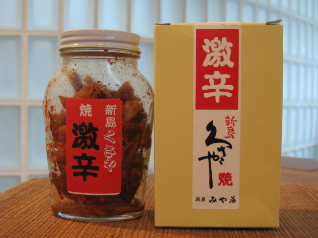 I took this photo of kusaya - dried fish - in August, 2006. I am putting it here in the Commons for all to use.